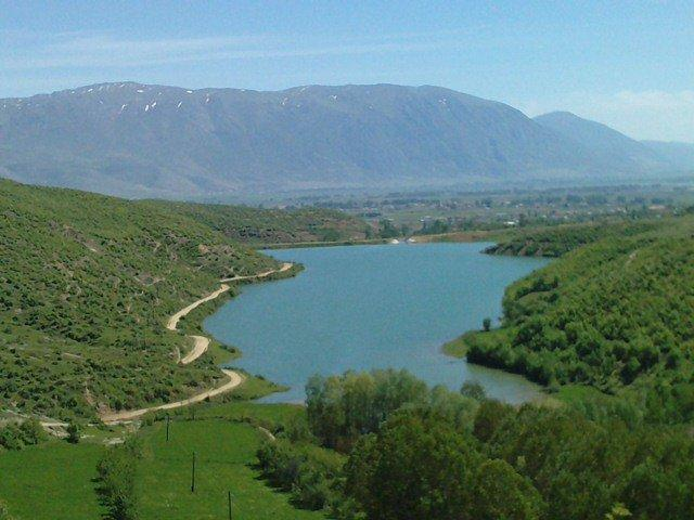 The reservoir lake near the village of Leminot, Pirg Municipality, Korçë District, Korçë County, Albania.